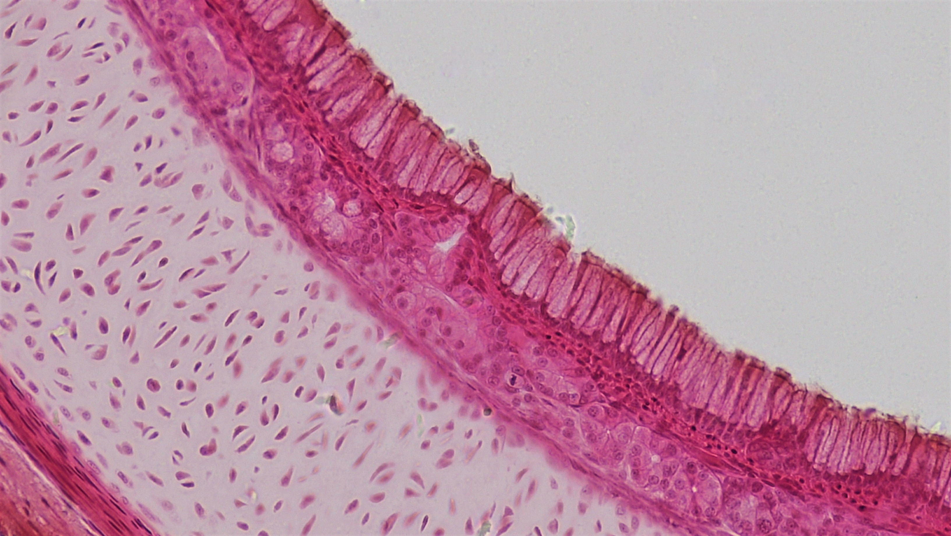 cross section: mammalian trachea magnification: 200x